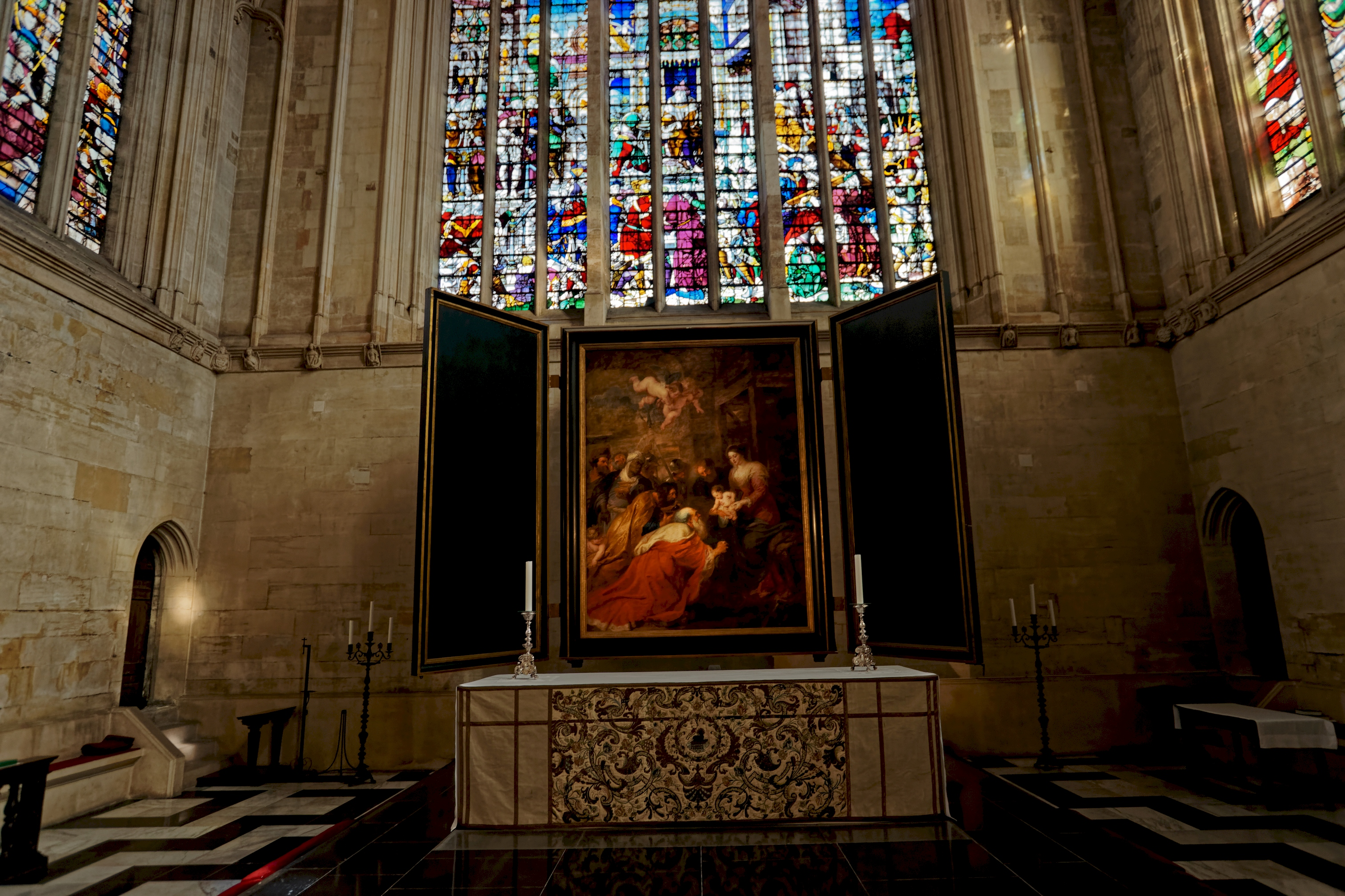 Cambridge - King's College Chapel 1446-1544 - Choir - View East on Altarpiece: Adoration of the Magi 1641 by Peter Paul Rubens